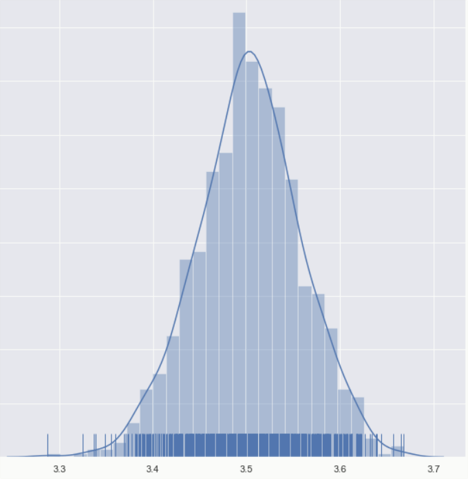 Probability distribution, the mean of 1000 throws, sampled 1000 times. While the dice has uniform distribution of 6 fixed values (1 to 6), mean has close to normal distribution with the mean of 3.5.